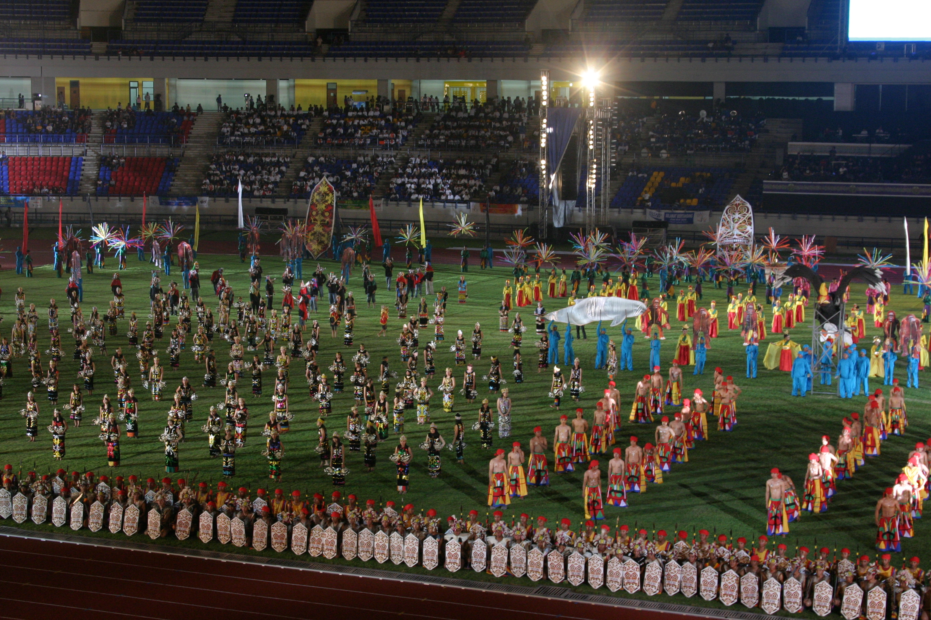 PON XVII 2008 opening ceremony rehearsal with various East Kalimantan traditional dances